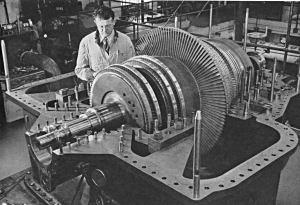 Turbine, ship propulsion Pud 23:00, 20 Jul 2004 (UTC) Billede:Skibsturbine.jpg